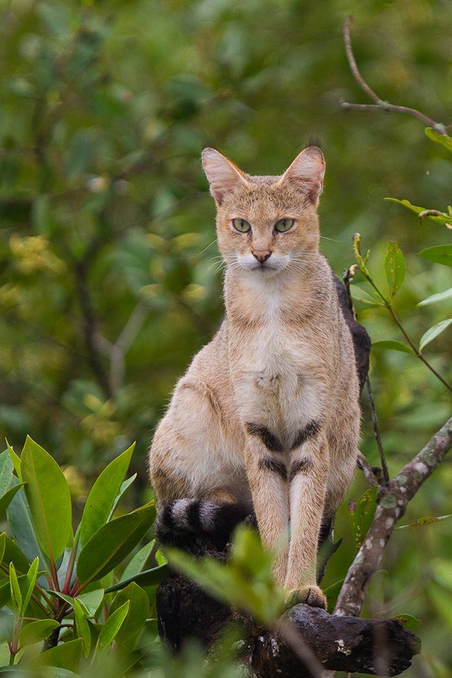 This is the second time I have got the feline on top of a tree. The first time it was in Feb 2016 during a high tidal condition. This time, however, the tides were not that high. The cat probably was looking out for some vantage point to try out a hunt.